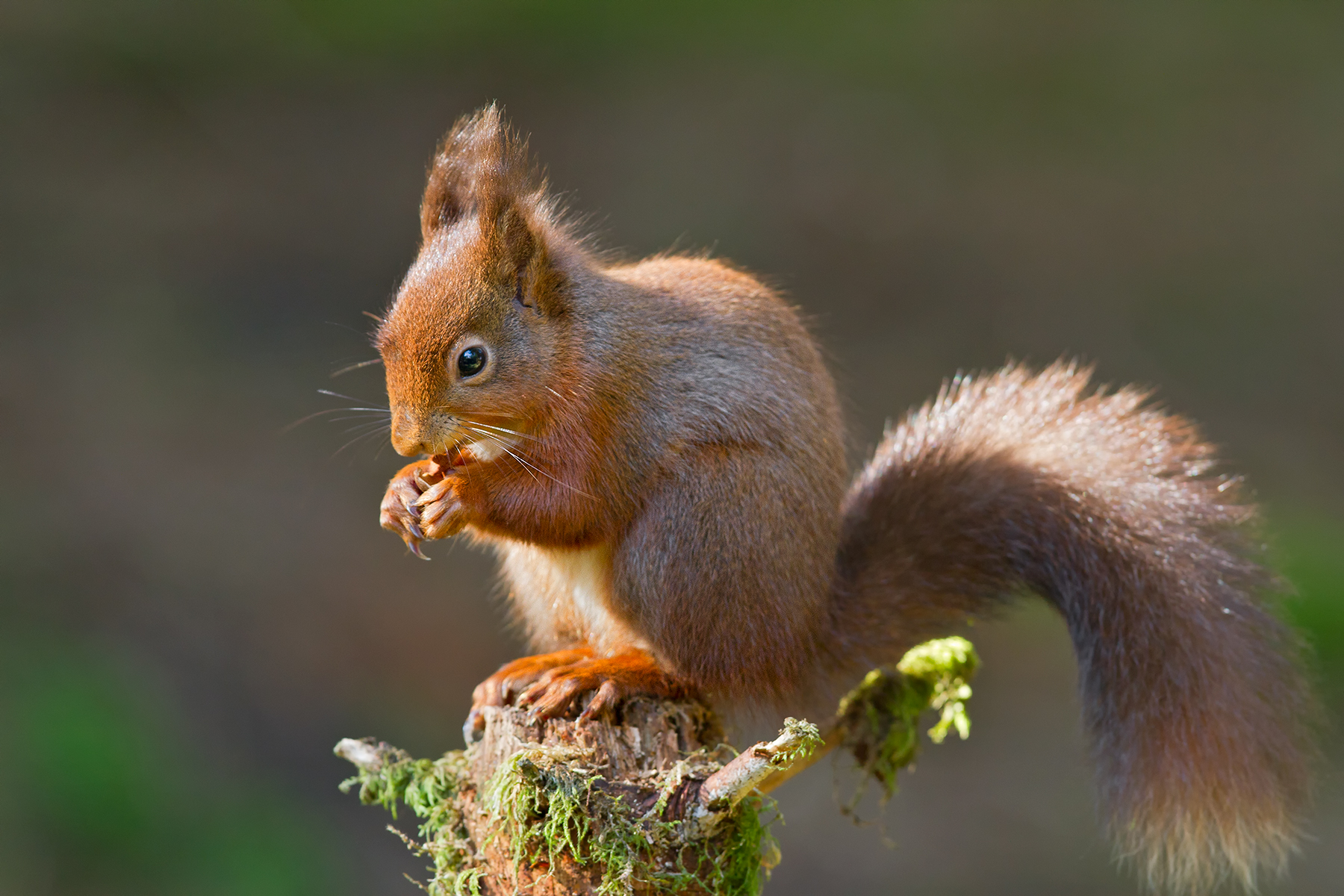 Red squirrel (Sciurus vulgaris) feeding. United Kingdom.